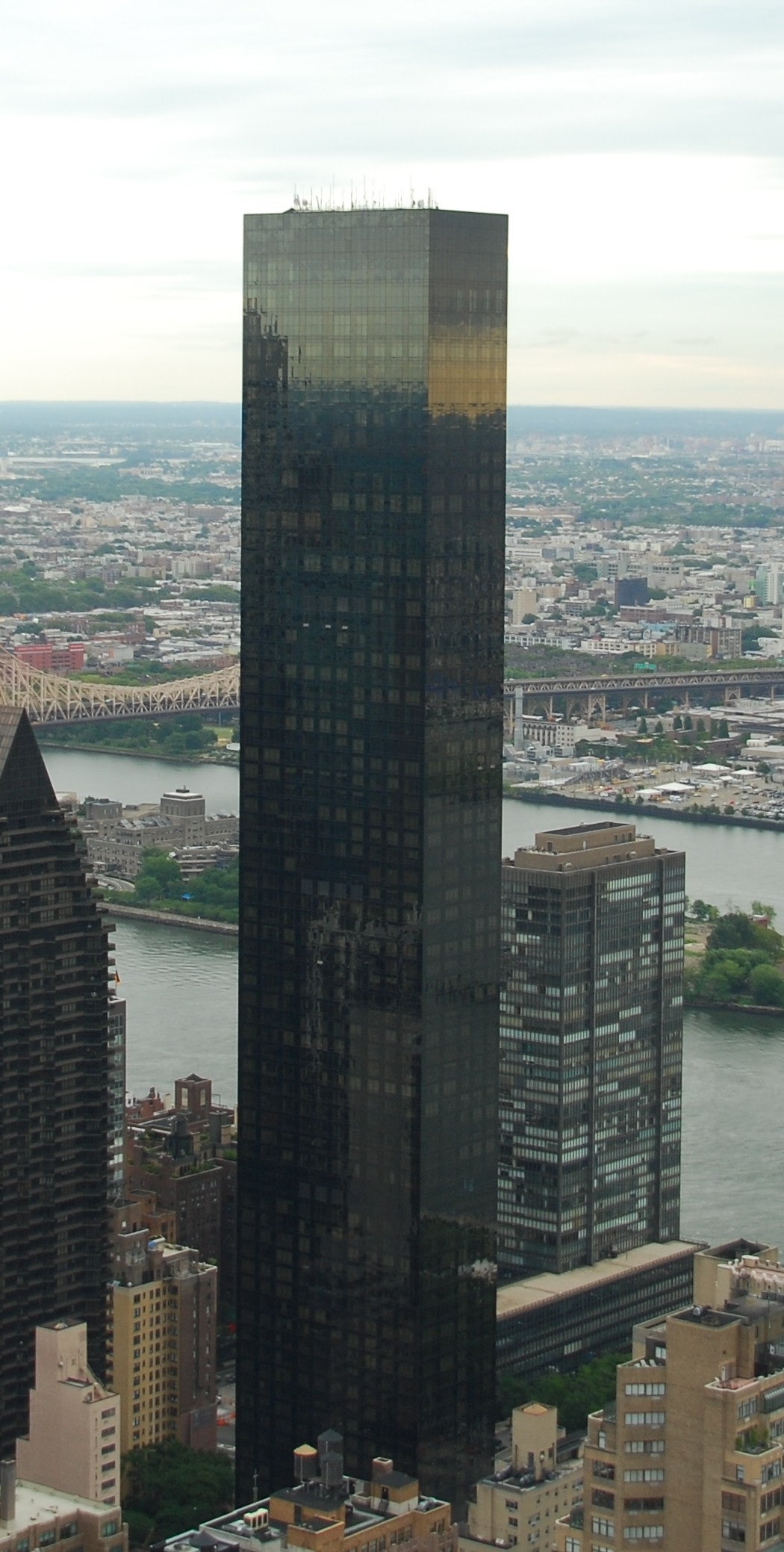 Trump World Tower and East River in Manhattan, New York City.